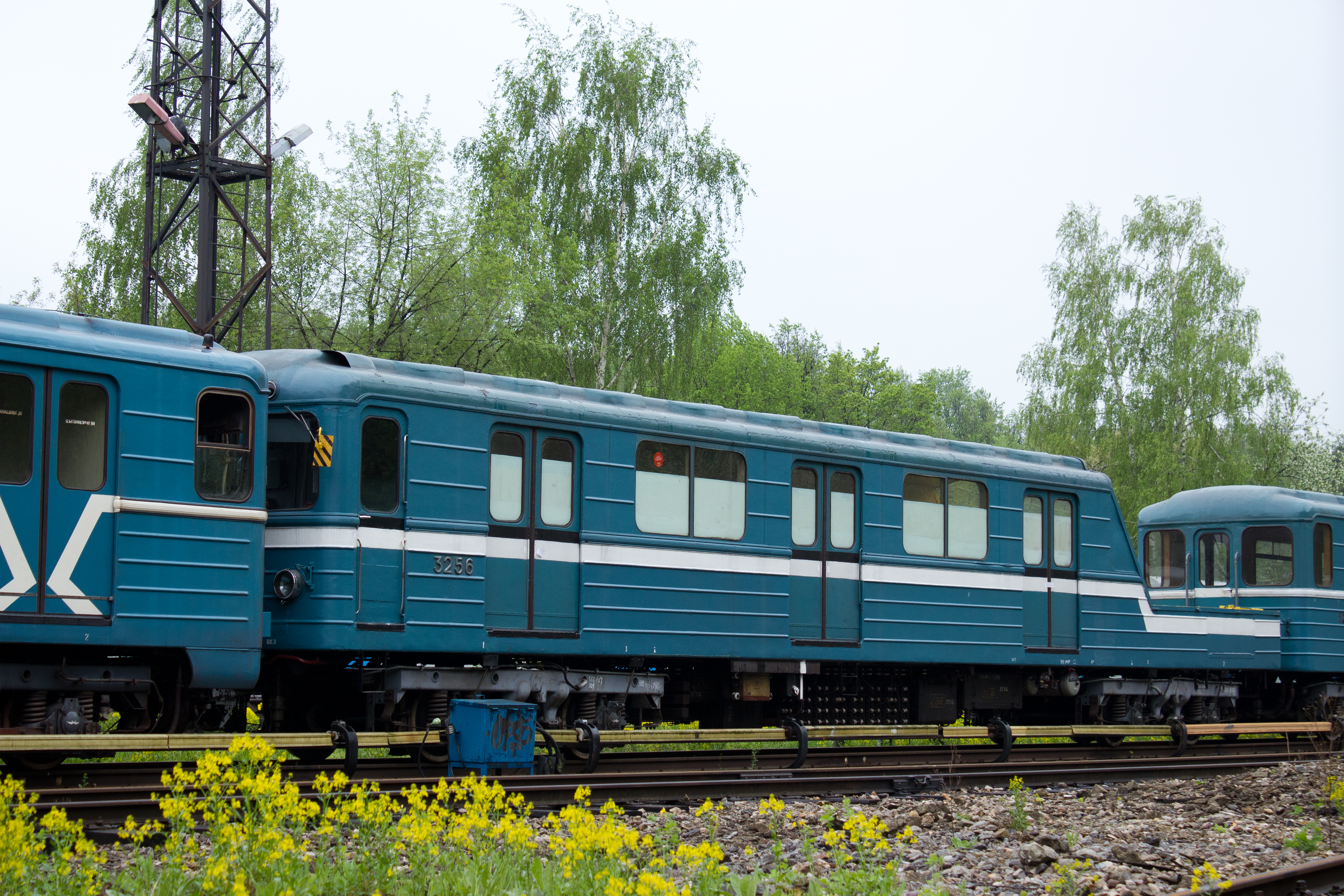 Written-off freight metro car type E #3256 in "Izmaylovo" metro depot.